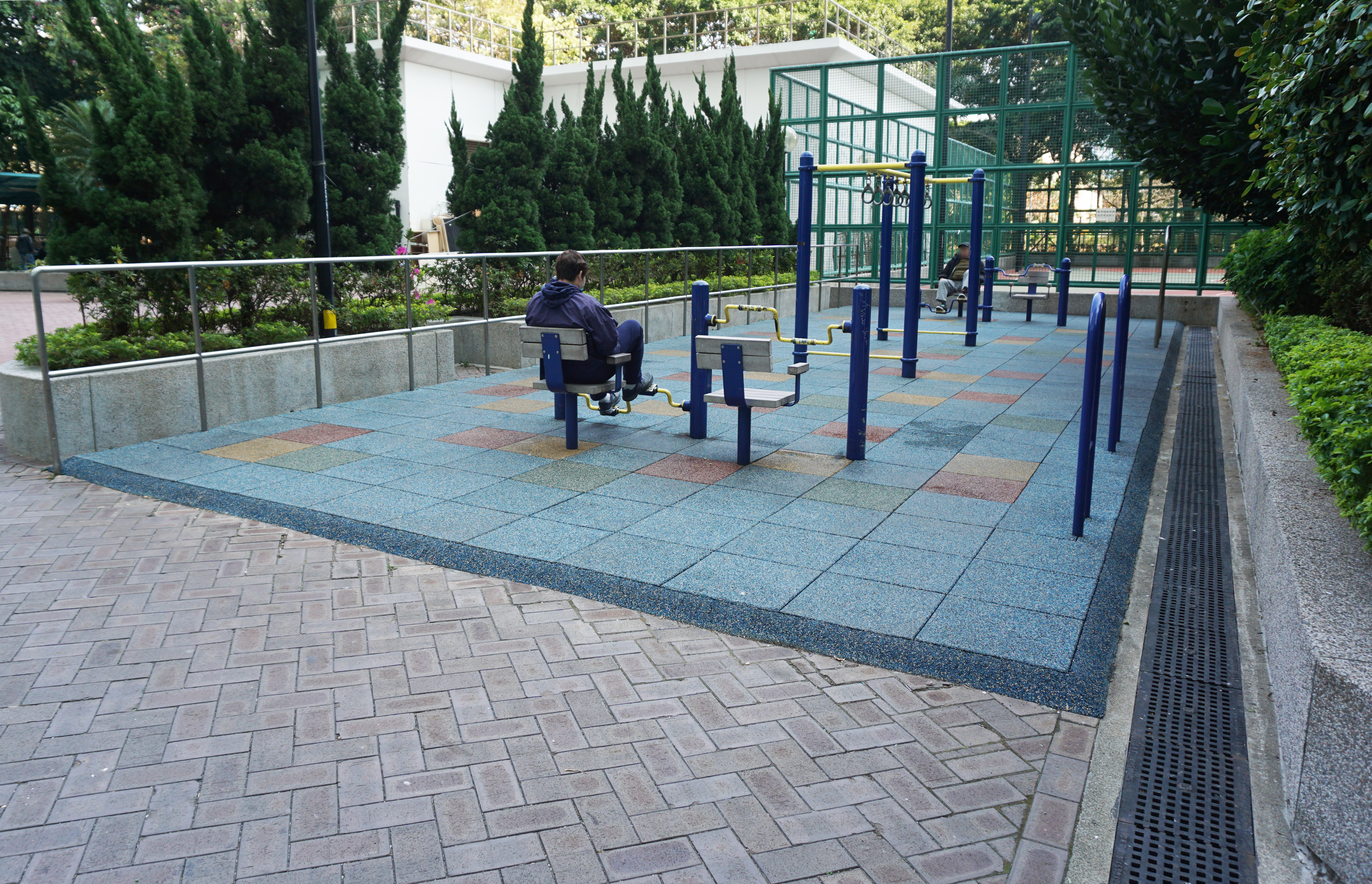 Fu Cheong Estate in Sham Shui Po, Hong Kong.